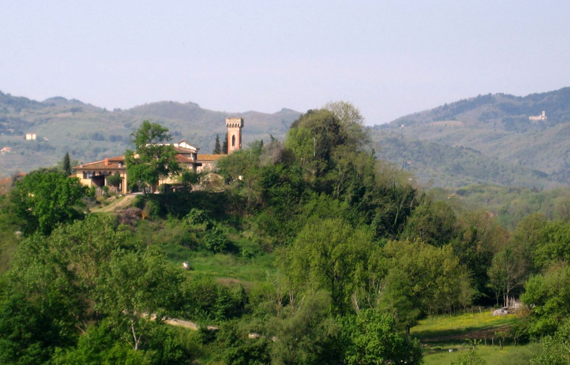 The ancient castle of Ricasoli, formerly owned by the House of Ricasoli from where the house get the name. It's now a village, frazione of Montevarchi